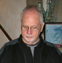 Thom Wolf 2003